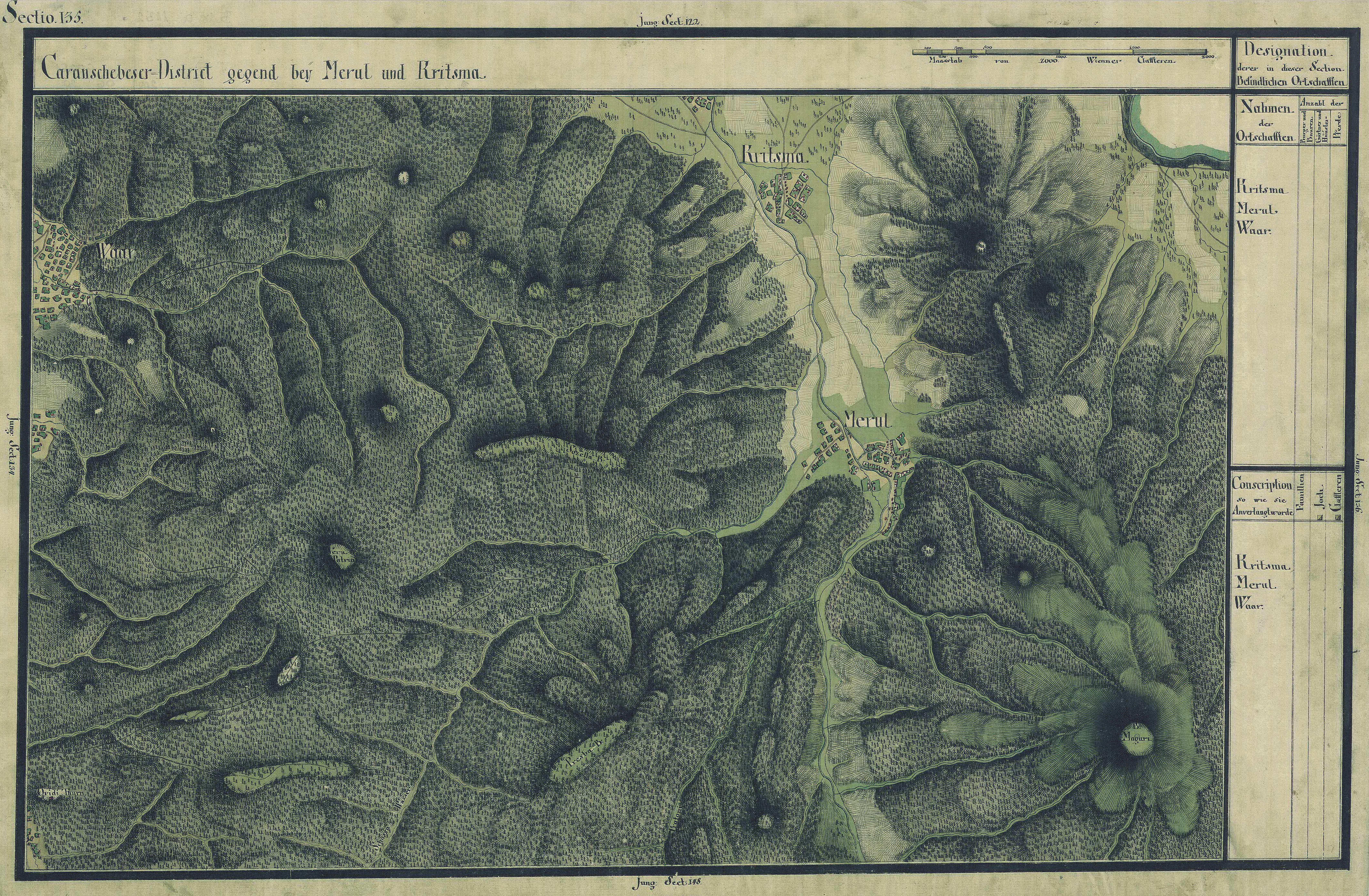 The Banat region in the cadastral maps: Josephinische Landesaufnahme, 1769-72. Josephinische Landaufnahme pg135